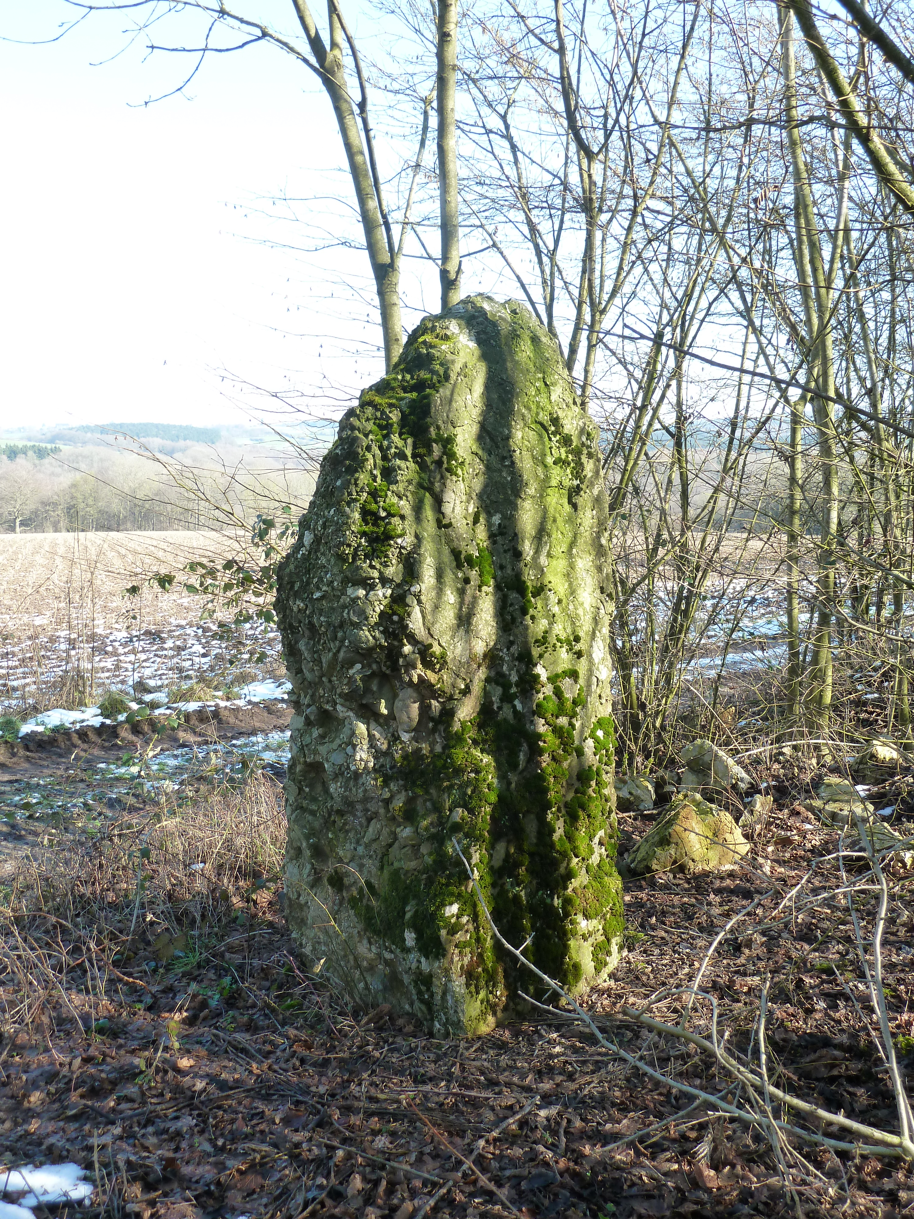 Menhir de Heyd, Wéris area, Durbuy, Belgium